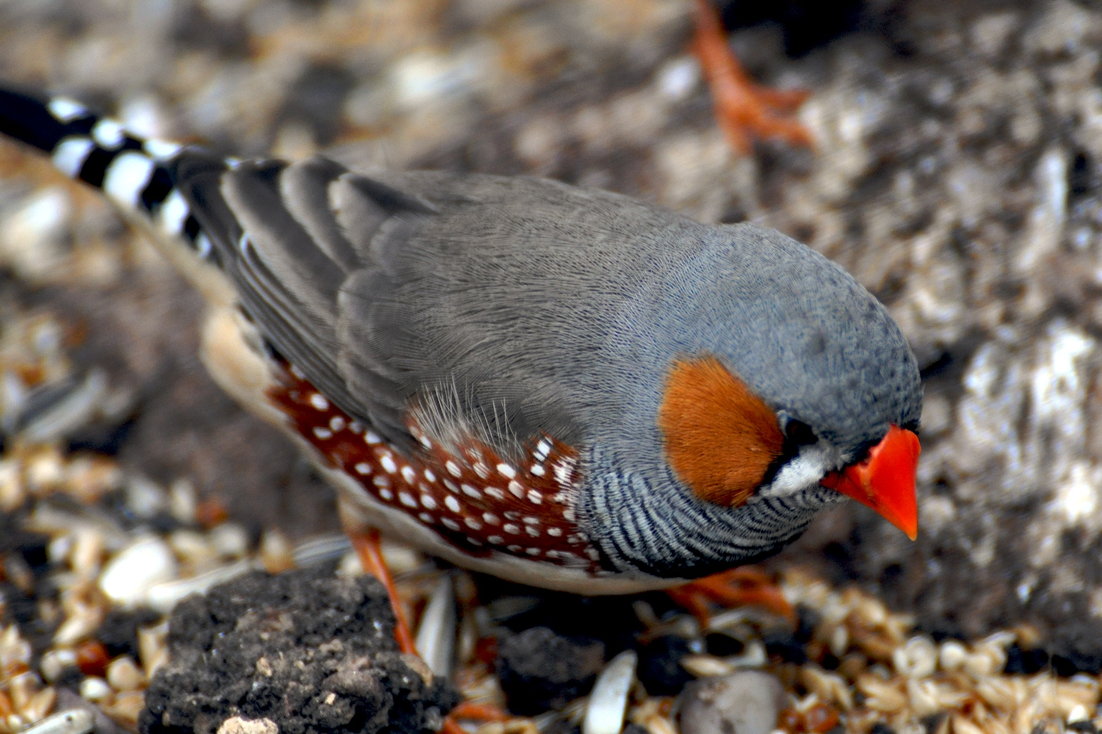 A male Zebra Finch at Lincolnshire Butterfly and Wildlife Park, England.